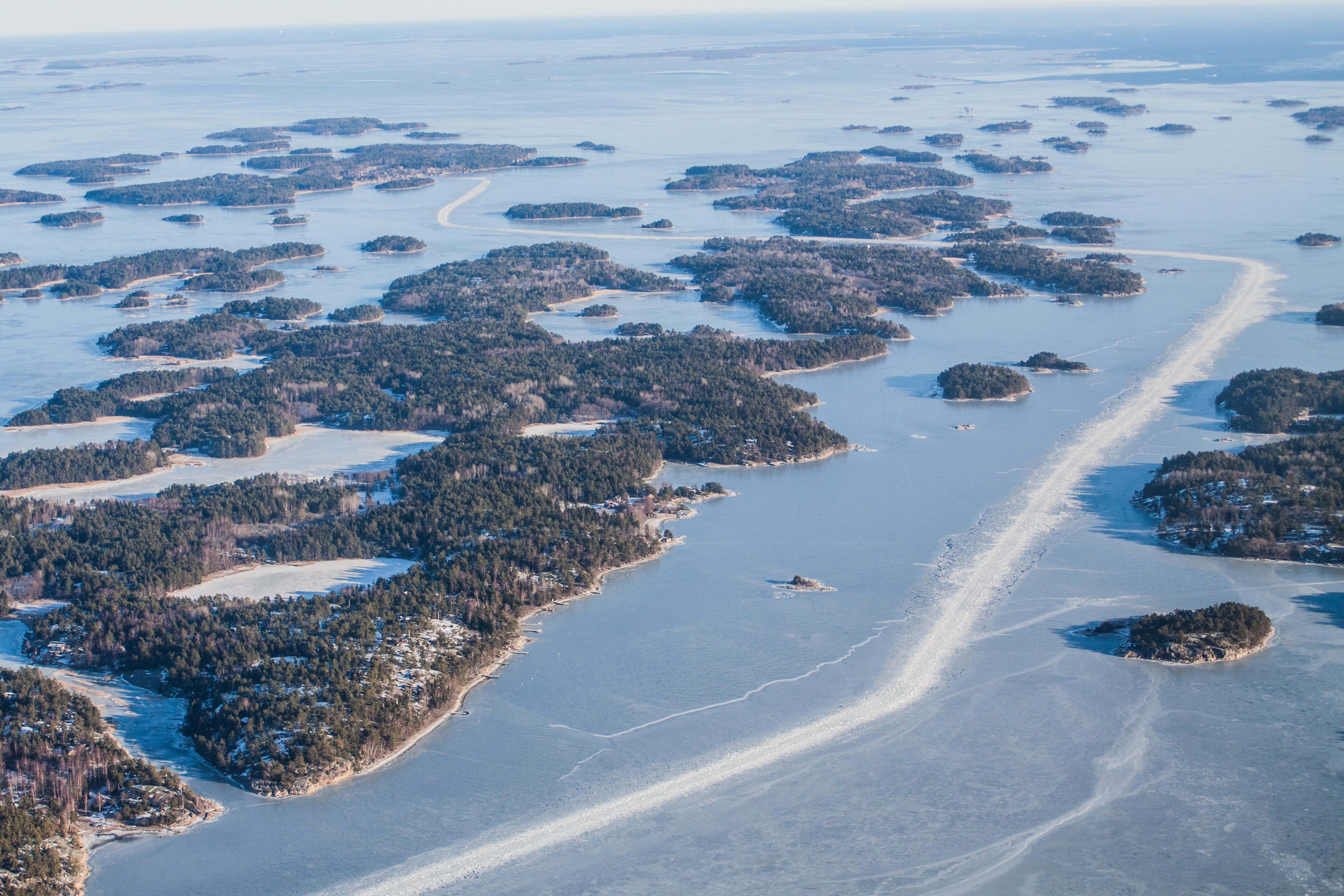 Aerial view over the Stockholm archipelago looking north-west. The track shows the ferry route to the island of Husarö at top left, whilst from bottom left to top right stretch the islands (in order) of Ingmarsö, Finnhamn/Stora Jolpan and Särsö, with the ferry track passing between the latter two islands. Aerial images arranged by Wikimedia.